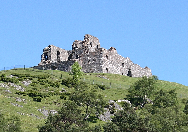 Auchindoun Castle A long focus view of the castle from the other side of Glen Fiddich.